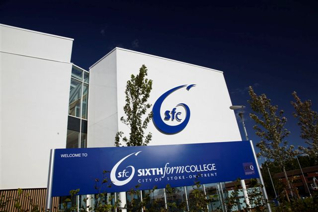 City of Stoke-on-Trent Sixth Form College